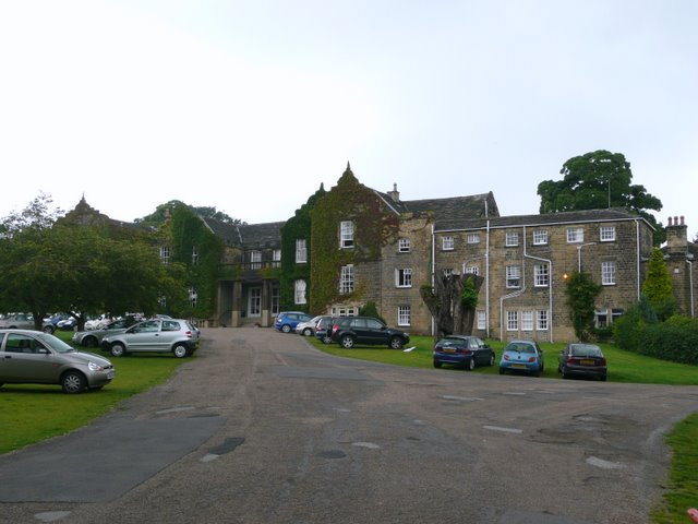 Woolley Hall, Jacobean architecture in West Yorkshire, England. Quote from Wikipedia: The present building in Woolley, is an example of early Jacobean architecture, and was built about 1635 and added onto at the turn of the 19th Century by the architect Jeffry Wyatville. It stands in the village of Woolley near the M1 Motorway, and after serving the Wentworth family into the 18th Century was for a period a college, and is presently owned by Wakefield council who use it as a conference centre and wedding location.